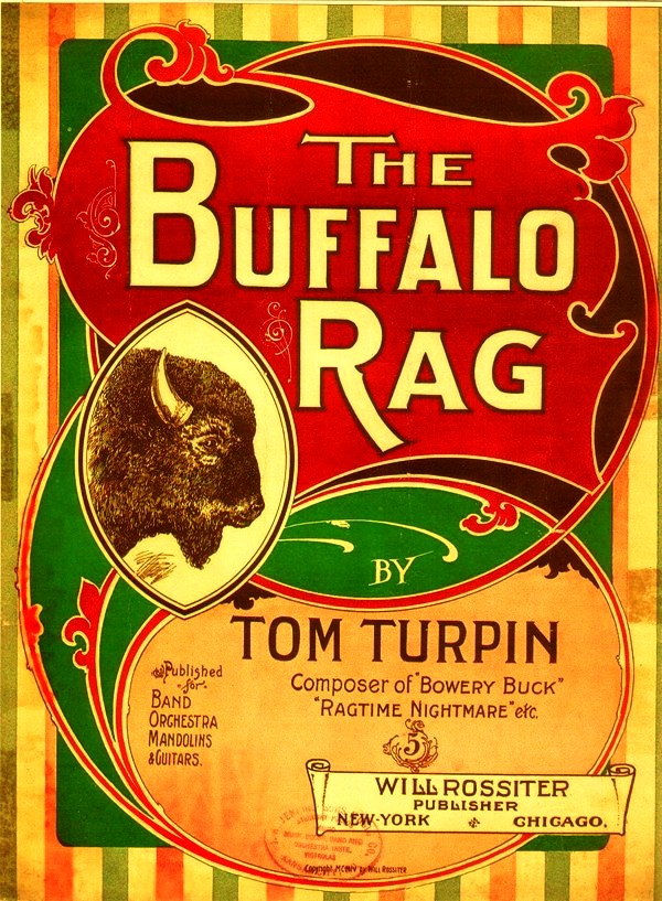 The Buffalo Rag, 1904